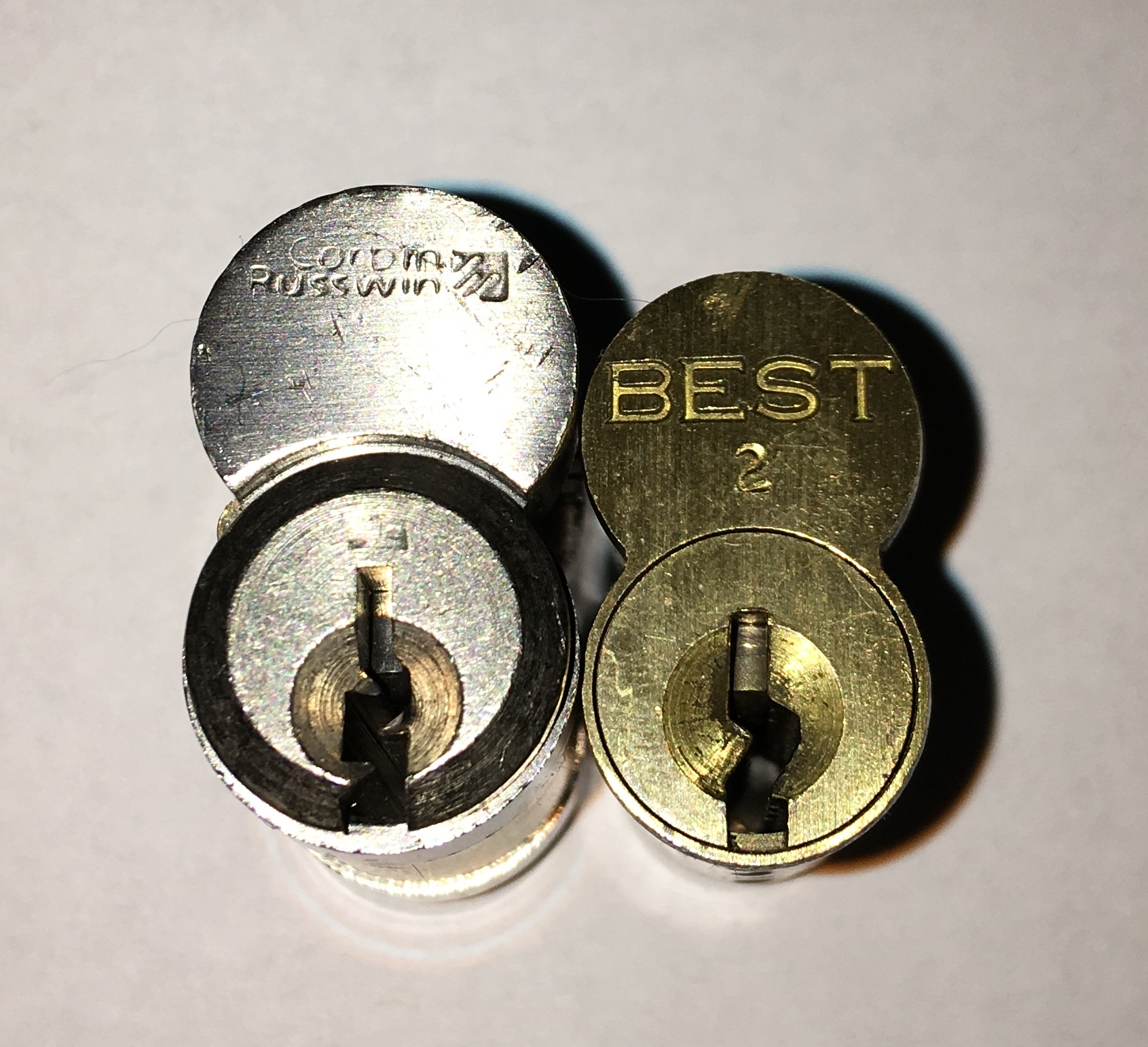 left: Corbin Russwin large format interchangeable core right: best small format interchangeable core